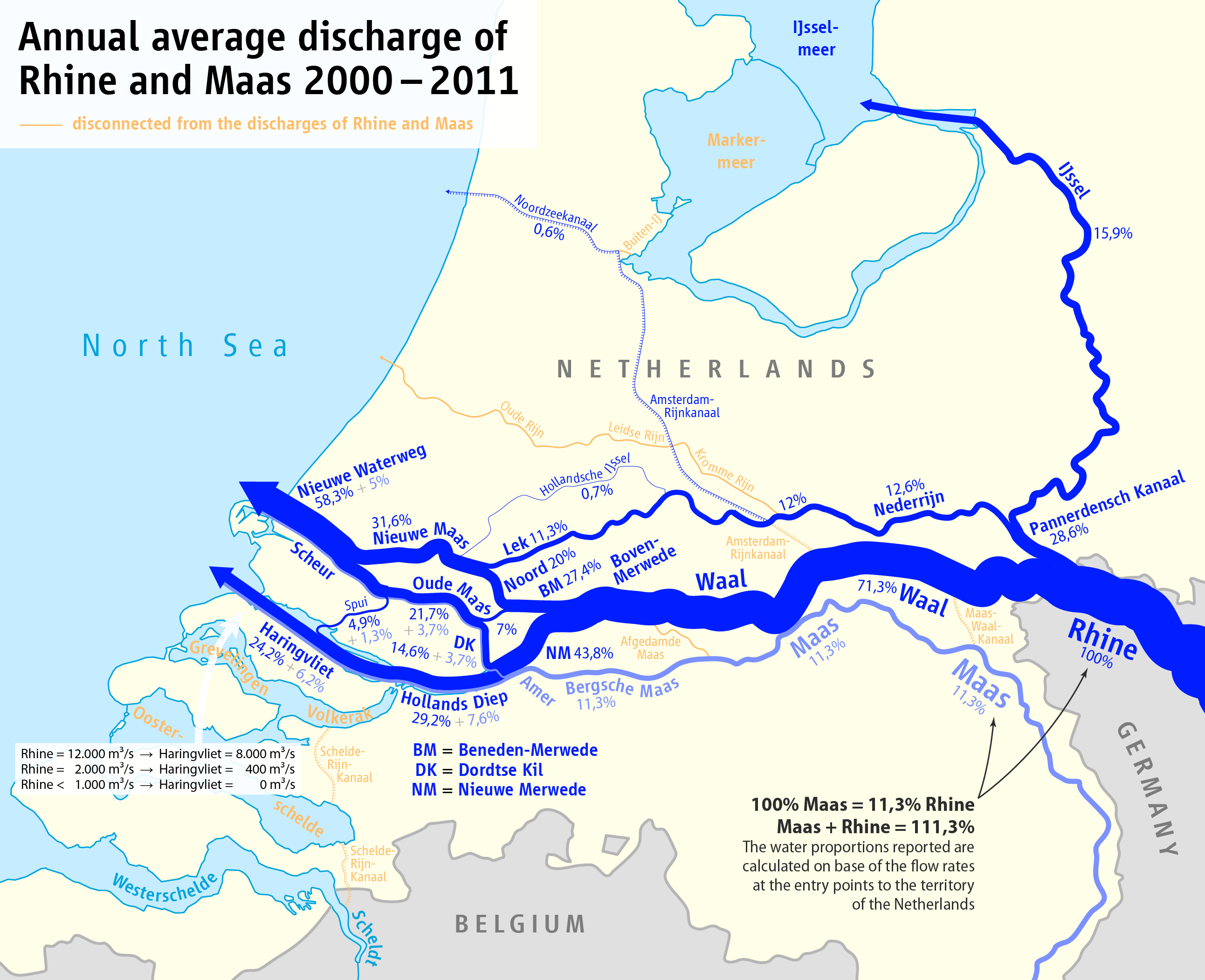 Map of the partition of Rhine and Meuse water among the various branches of their delta 2000-2011